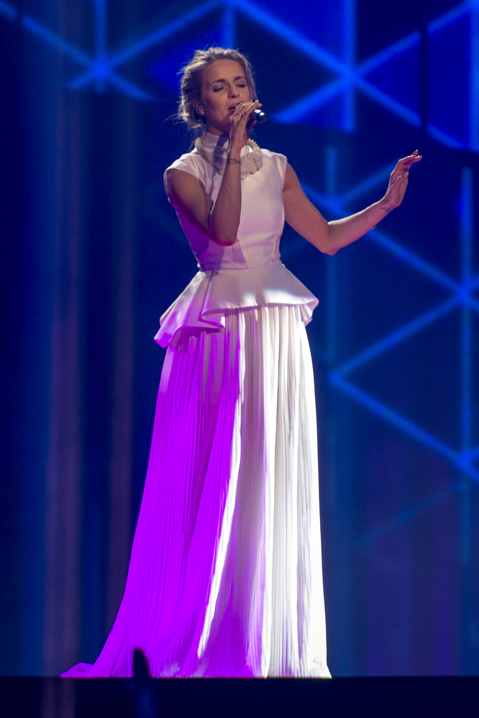 Gabriela Gunčíková representing Czech Republic with the song "I Stand" during a rehearsal before the first semi final of the Eurovision Song Contest 2016 in Stockholm. (Help translate this text)